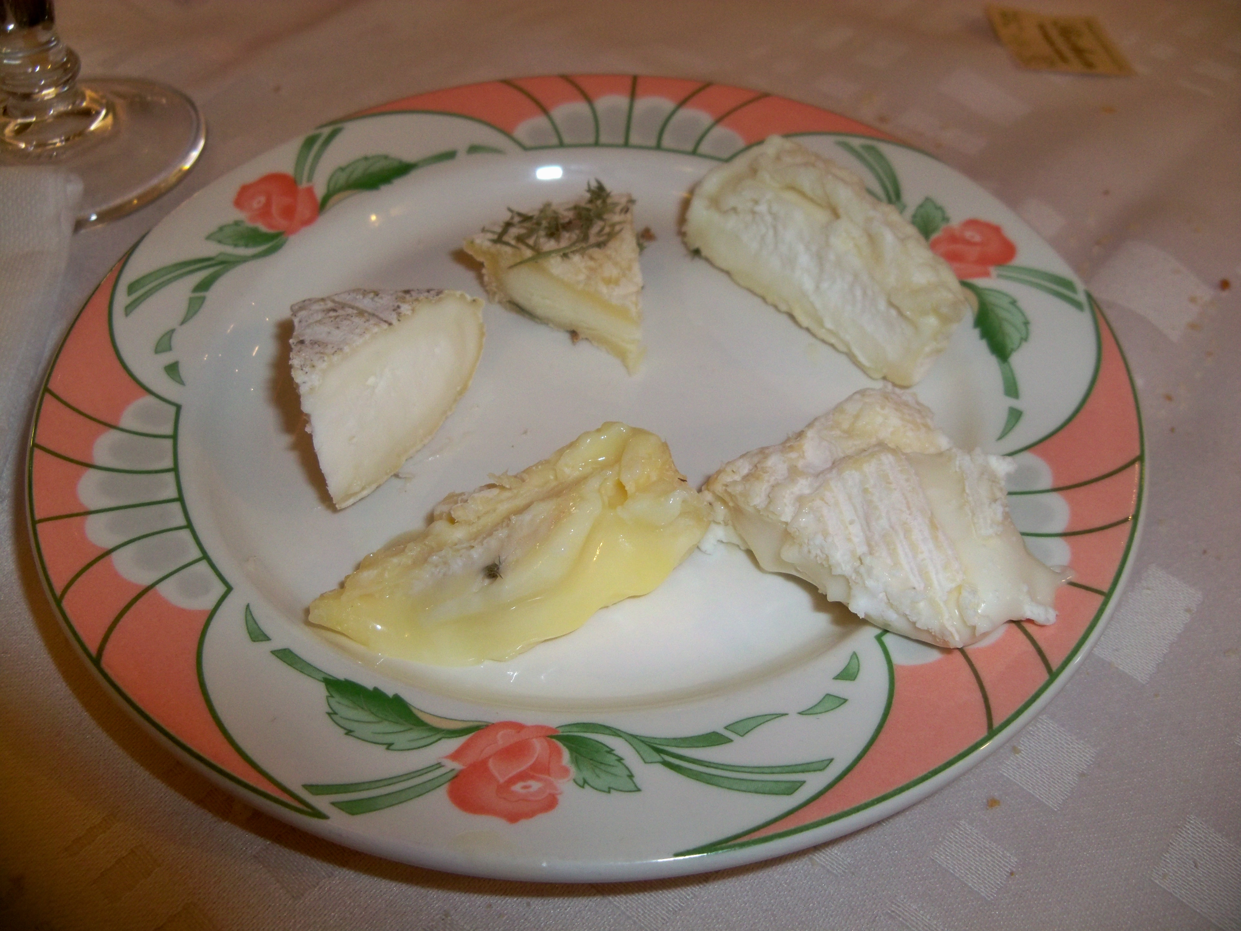 various cheeses from Banon (Alpes de Haute Provence, France)